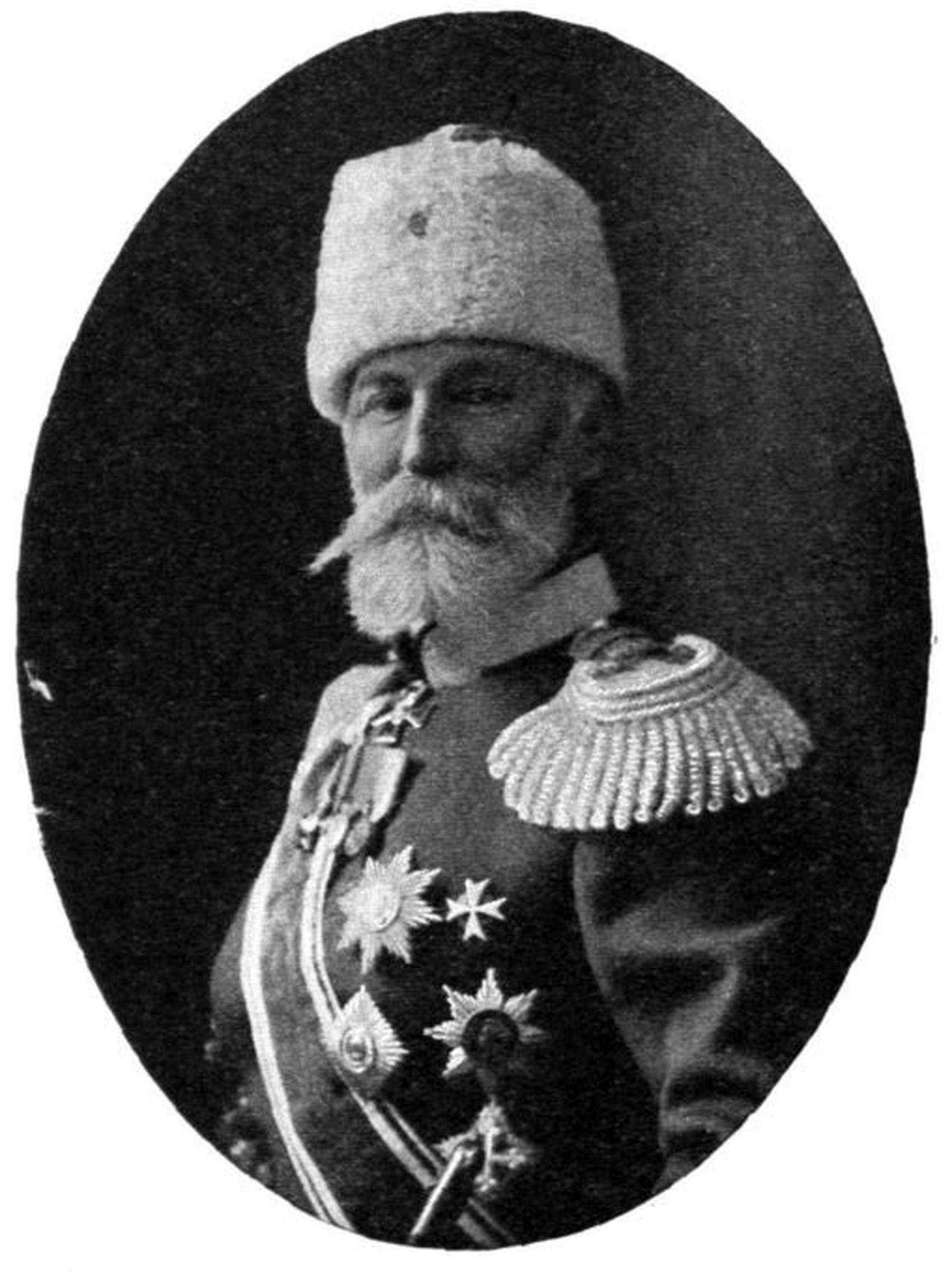 Odoevsky-Maslov, Nikolay Nikolayevich, (1849—1919) — general of the cavalry IRA.